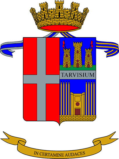 Coat of Arms of the 28° Cavalry Regiment; Italian Army.